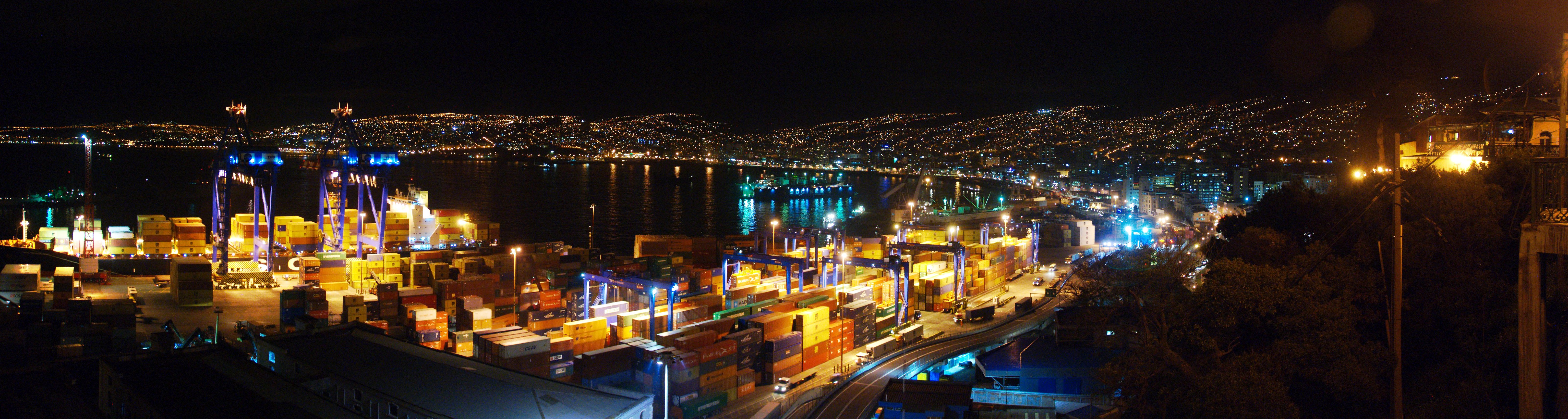 Valparaíso at night from the top of the Ascensor Artillería above the port.